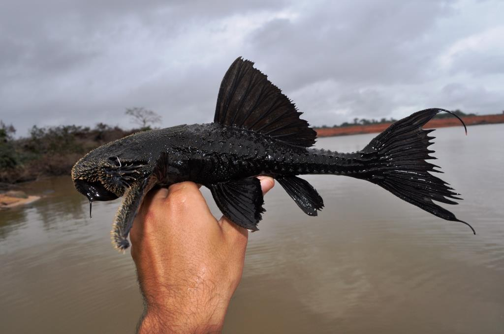 Brazil, Altamira, Para, Dezembro de 2015, by Gabriel Lelis Togni